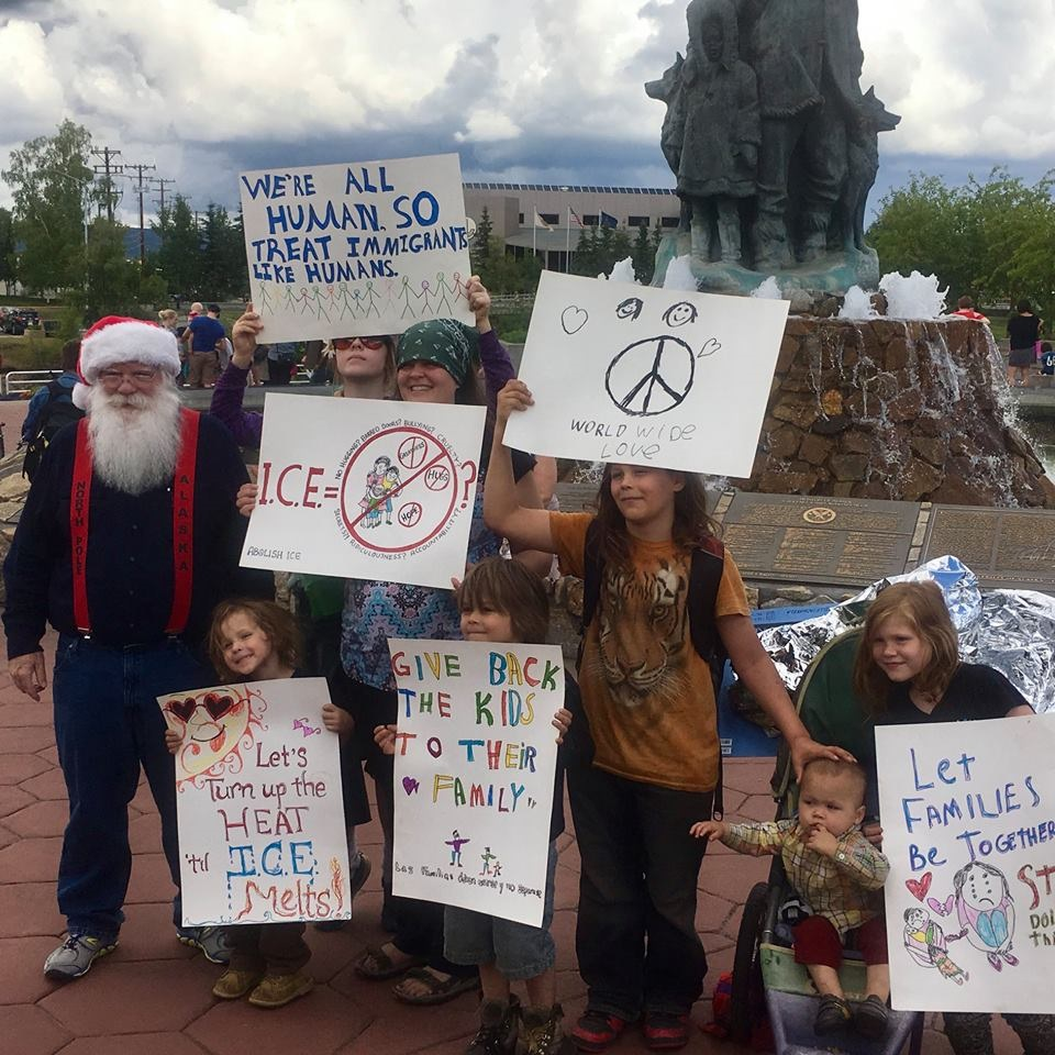 Santa Claus is joined by several children to protest US immigration policies that have resulted in immigrant children being separated from their undocumented parents. Fairbanks, AK